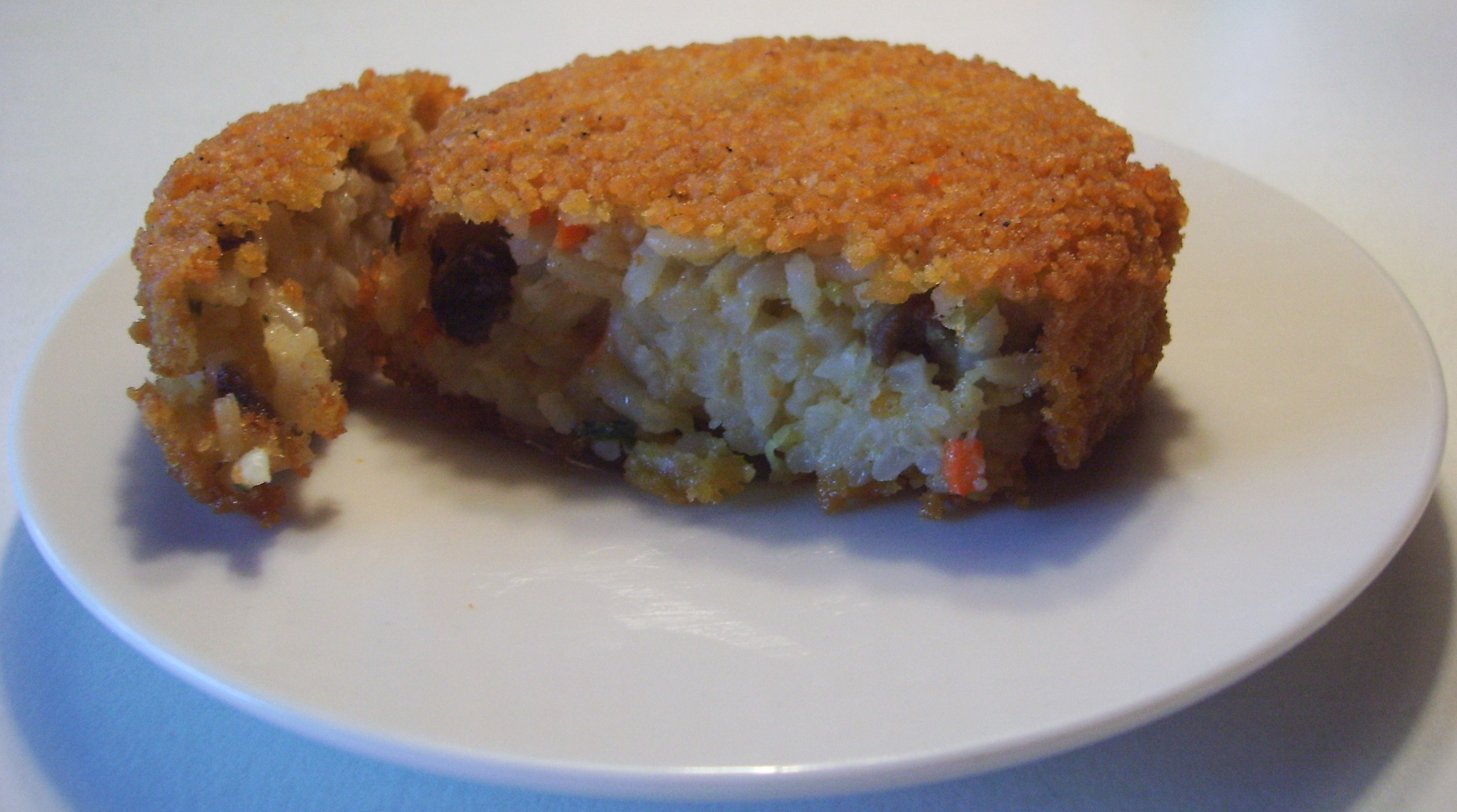 Nasischijf (nasi = rice, schijf = disk) Dutch deep-fried fast food, consisting of fried rice (nasi goreng) inside a crust of breadcrumbs.